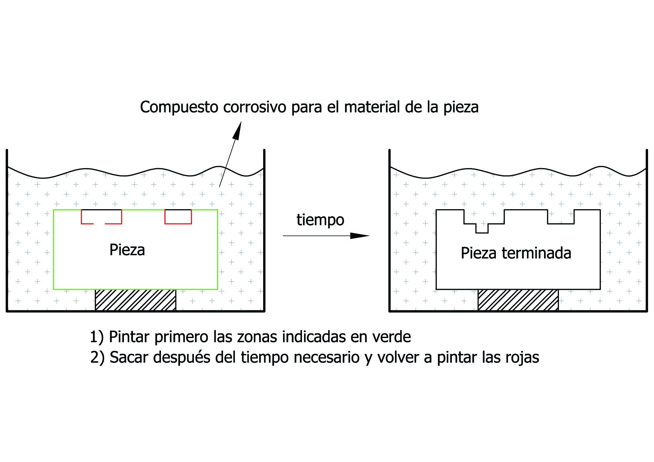 Efecto de apantallamientos sucesivos en fresado químico